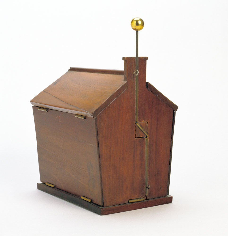 Author Unknown authorDescription